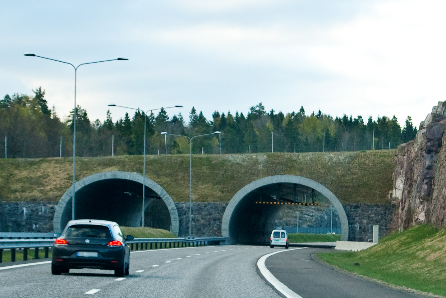 Svartedal tunnel in Re, Vestfold, Norway, on national road E18, seen from the north.